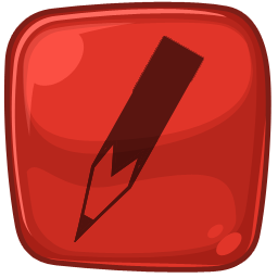 Icons are used to edit menu.